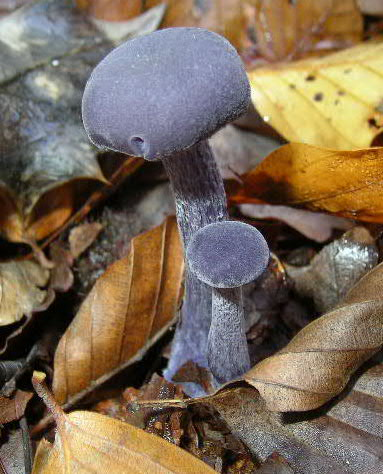 Amethyst Deceiver